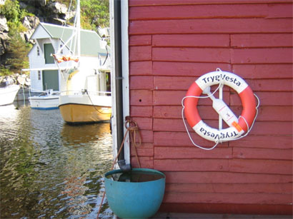 Lifebuoy from insurance company TrygVesta